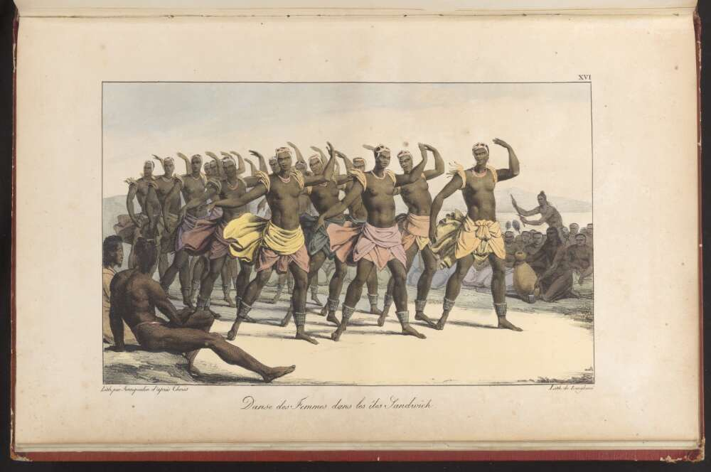 A hand-coloured lithograph depicting female dancers from the Sandwich Islands (now known as the Hawaiian Islands). It was based on an original work by Louis Choris, the artist aboard the Russian cruiser Rurick, which visited Hawai'i in 1816.